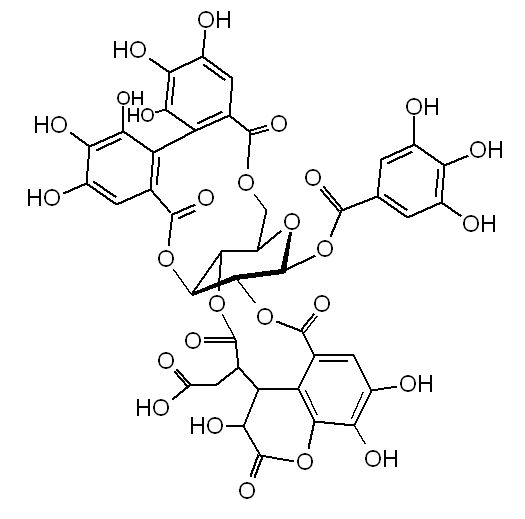 Chemical structure of chebulagic acid